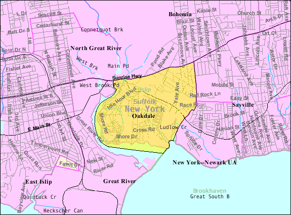 U.S. Census 2000 reference map for Oakdale